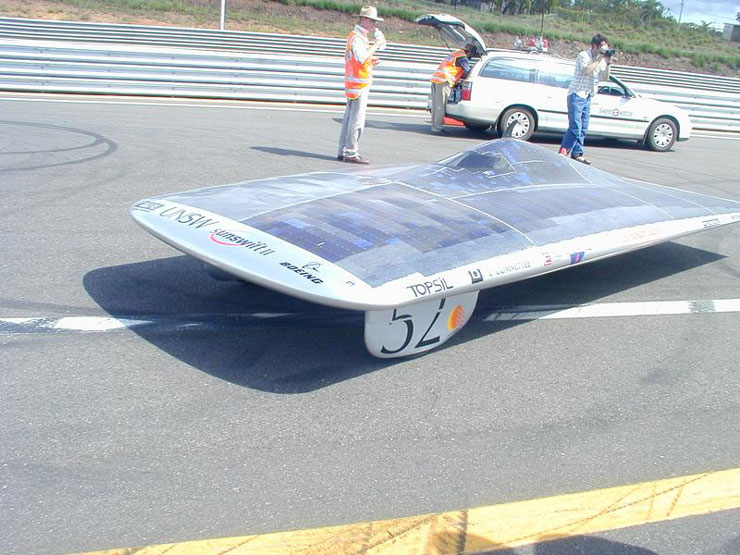 UNSW Solar Racing Team